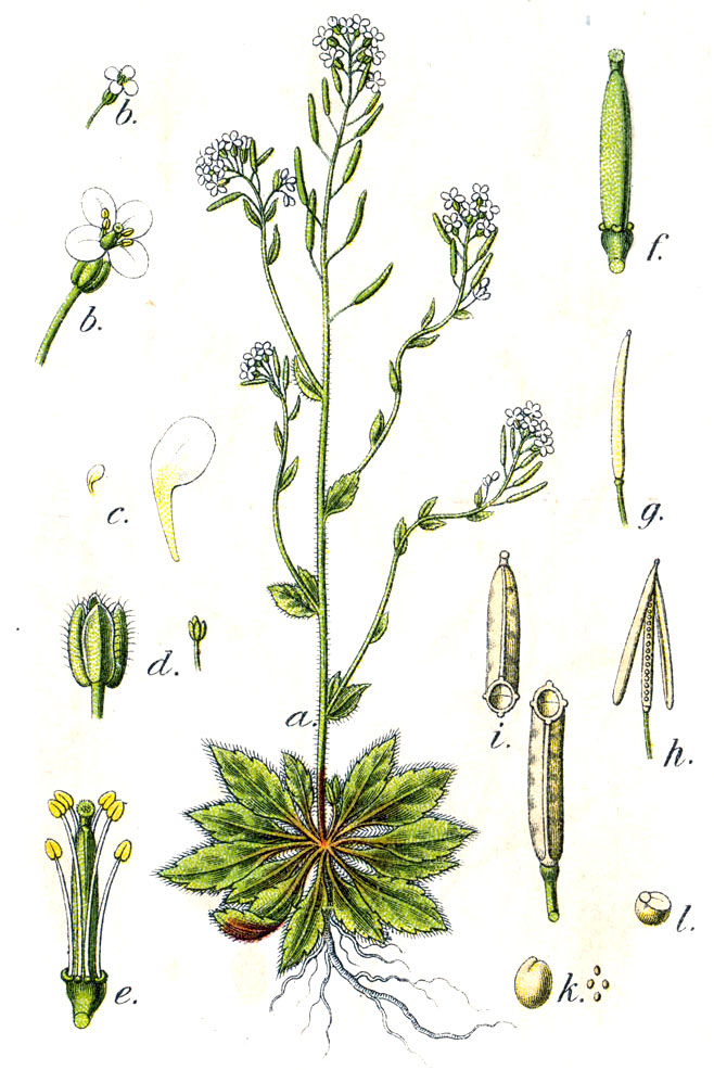 Arabidopsis thaliana (L.) Heynh., syn. Crucifera thaliana (L.) E.H.L.Krause Original Caption Thal-Kreuzblume, Crucifera thaliana